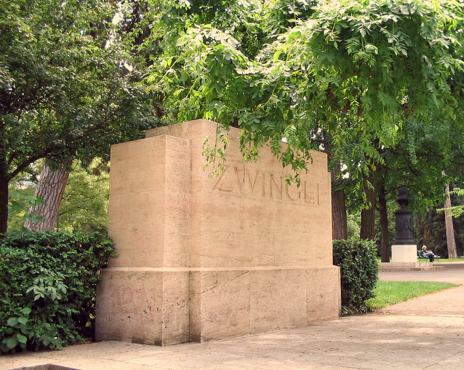 The monument to Huldrych Zwingli in Geneva, Switzerland.